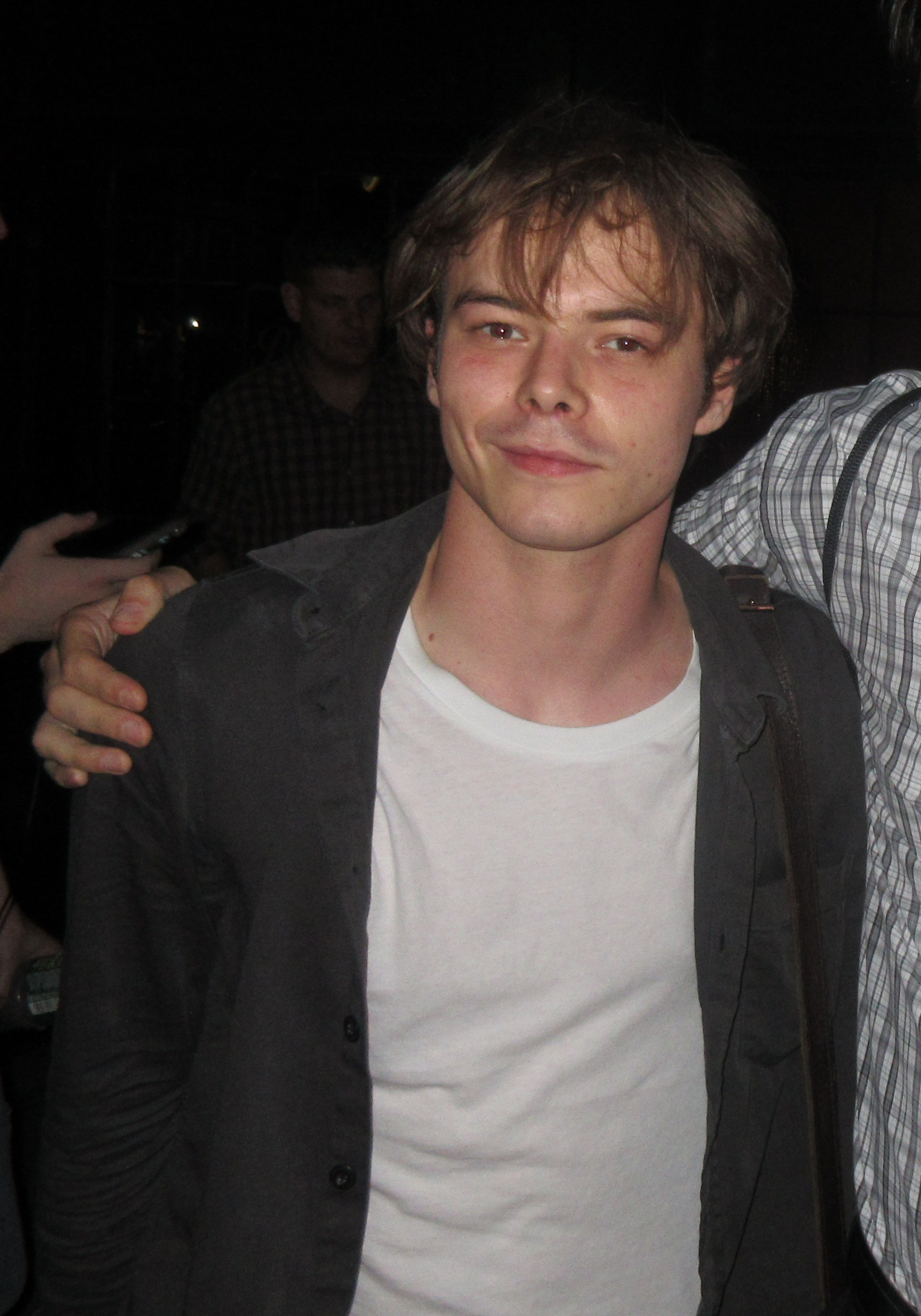 Actor Charlie Heaton in New York City.